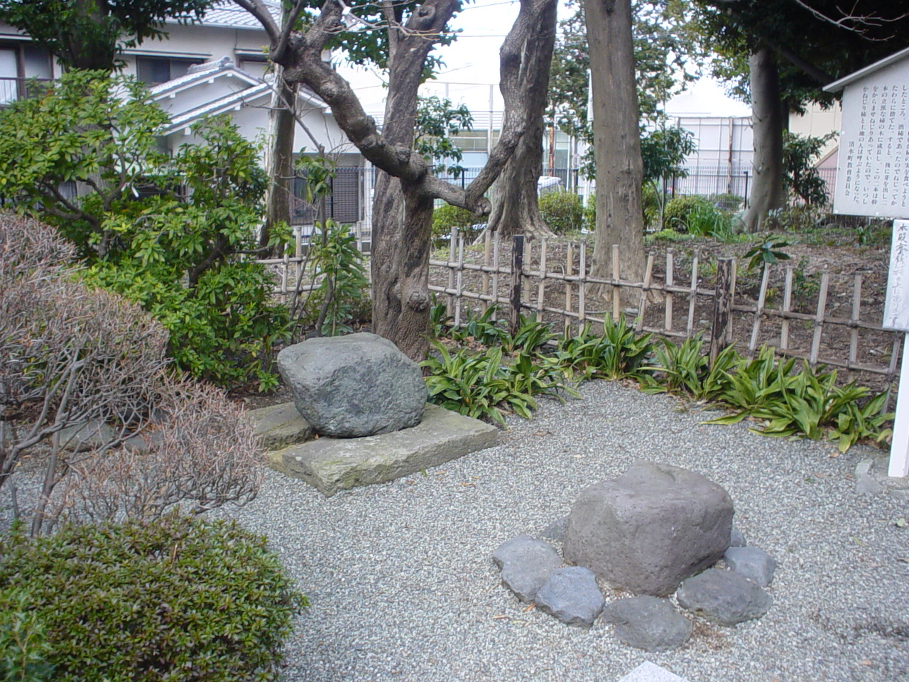 Photoplace:KISEGAWAYAHATAJINJA Photo day:5/SEP/2005 Photo by me